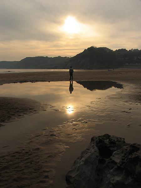 Meta Reflecting: Caswell Bay Reflecting on the reflections in the early evening sun at Caswell bay.